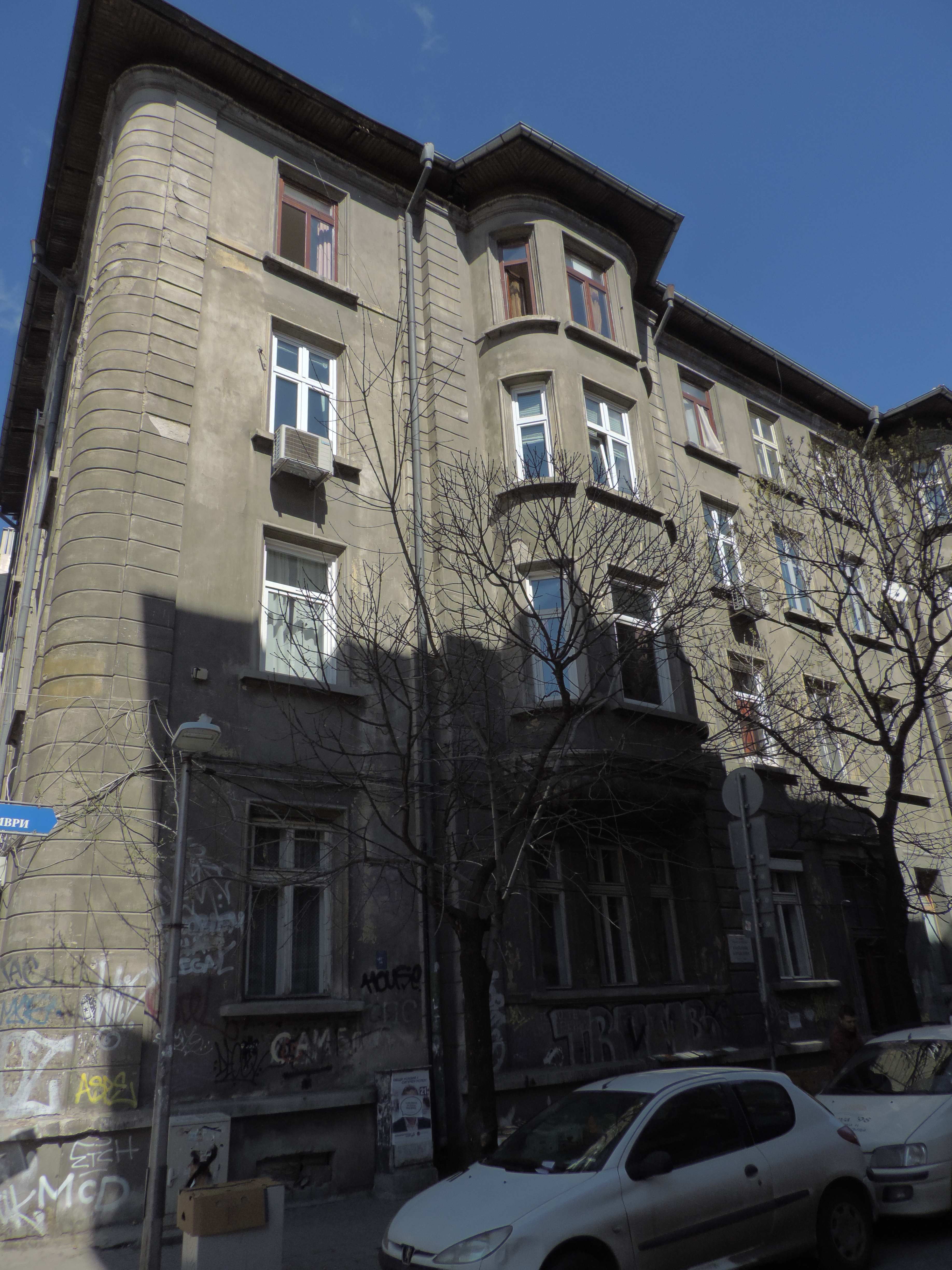 The house in which Ekaterina Karavelova lived from 1932 until her death in 1947. The house is located on 24 "6th September" Str, Sofia, Bulgaria